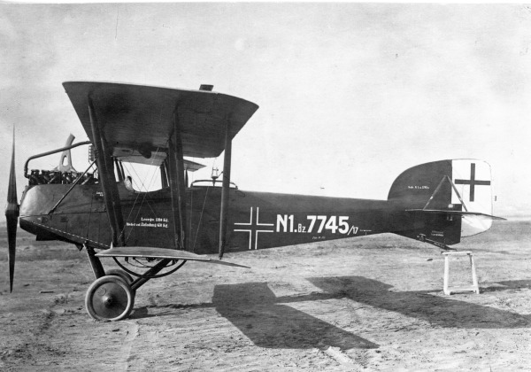 PictionID:43639992 - Catalog:16_004768 - Title:Sablatnig NI 1916 Nowarra photo - Filename:16_004768.TIF - - - - - Image from the Ray Wagner Collection. Ray Wagner was Archivist at the San Diego Air and Space Museum for several years and is an author of several books on aviation --- ---Please Tag these images so that the information can be permanently stored with the digital file.---Repository: San Diego Air and Space Museum